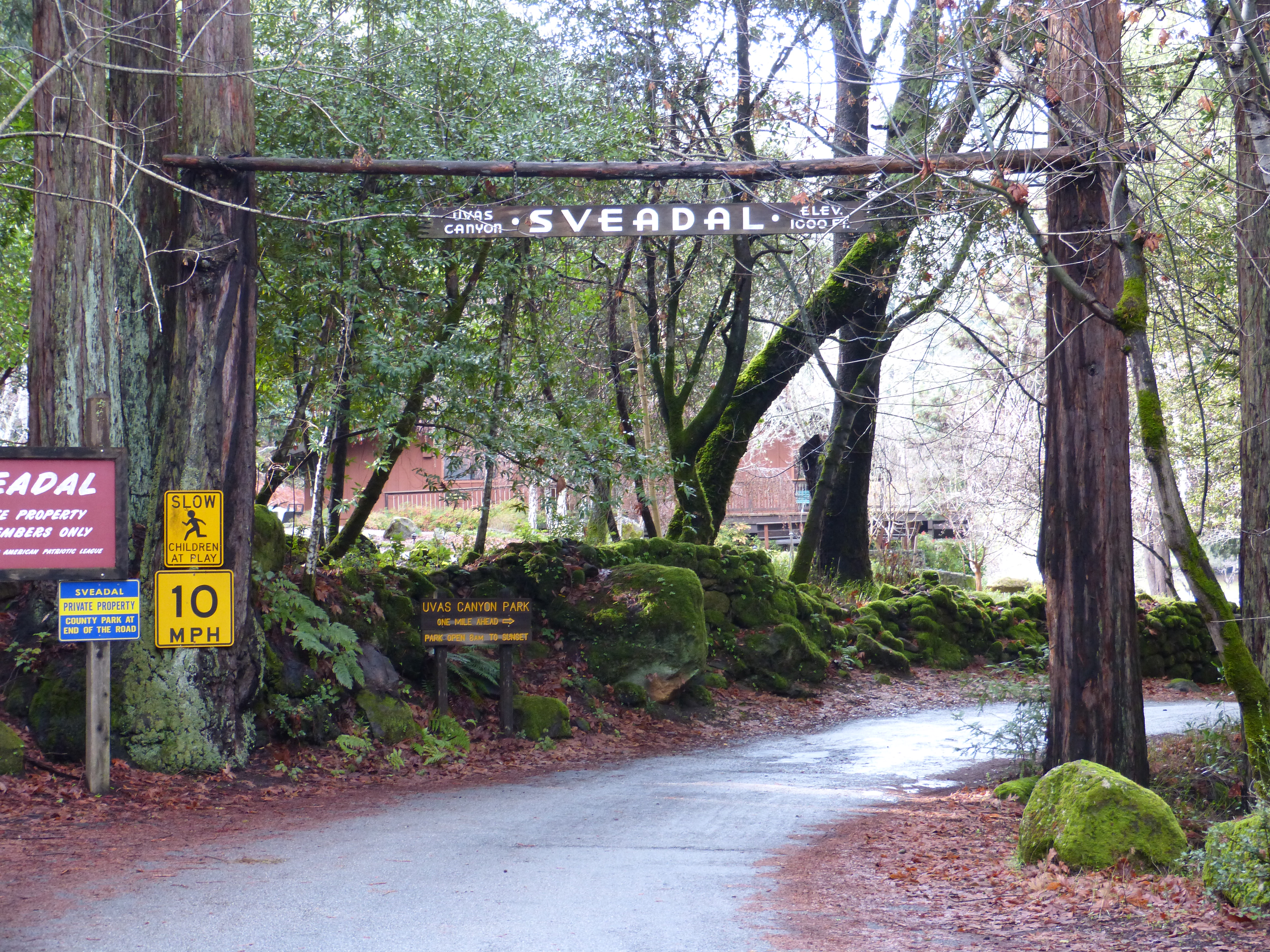 A photo of the Sveadal community entrance in 2016.